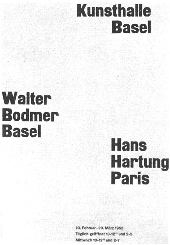 Poster designed by Emil Ruder for Kunsthalle Basel (exhibition of artists Walter Bodmer and Hans Hartung, February-March 1952).